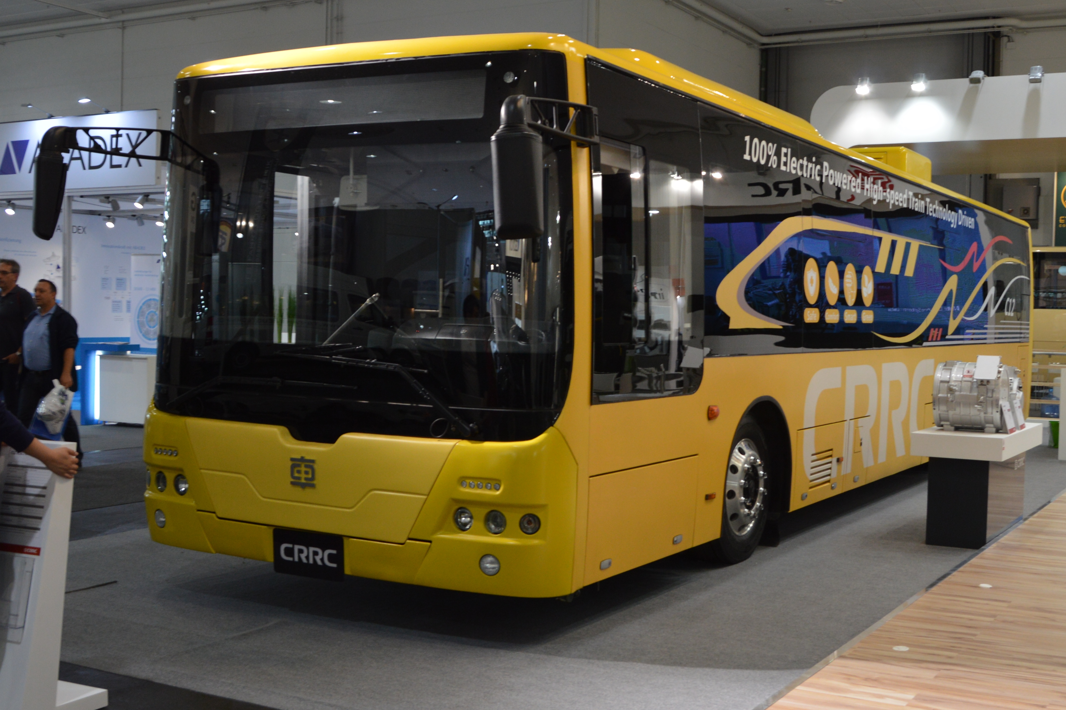 C 12 electric bus. CRRC Times Electric vehicle Co.,Ltd., Hunan, P.R. China. Length: 11950 mm. Permanent magnet synchronous motor with peak power: 150 kW. MnNiCo ternary batteries. Capacity: 201 kWh.